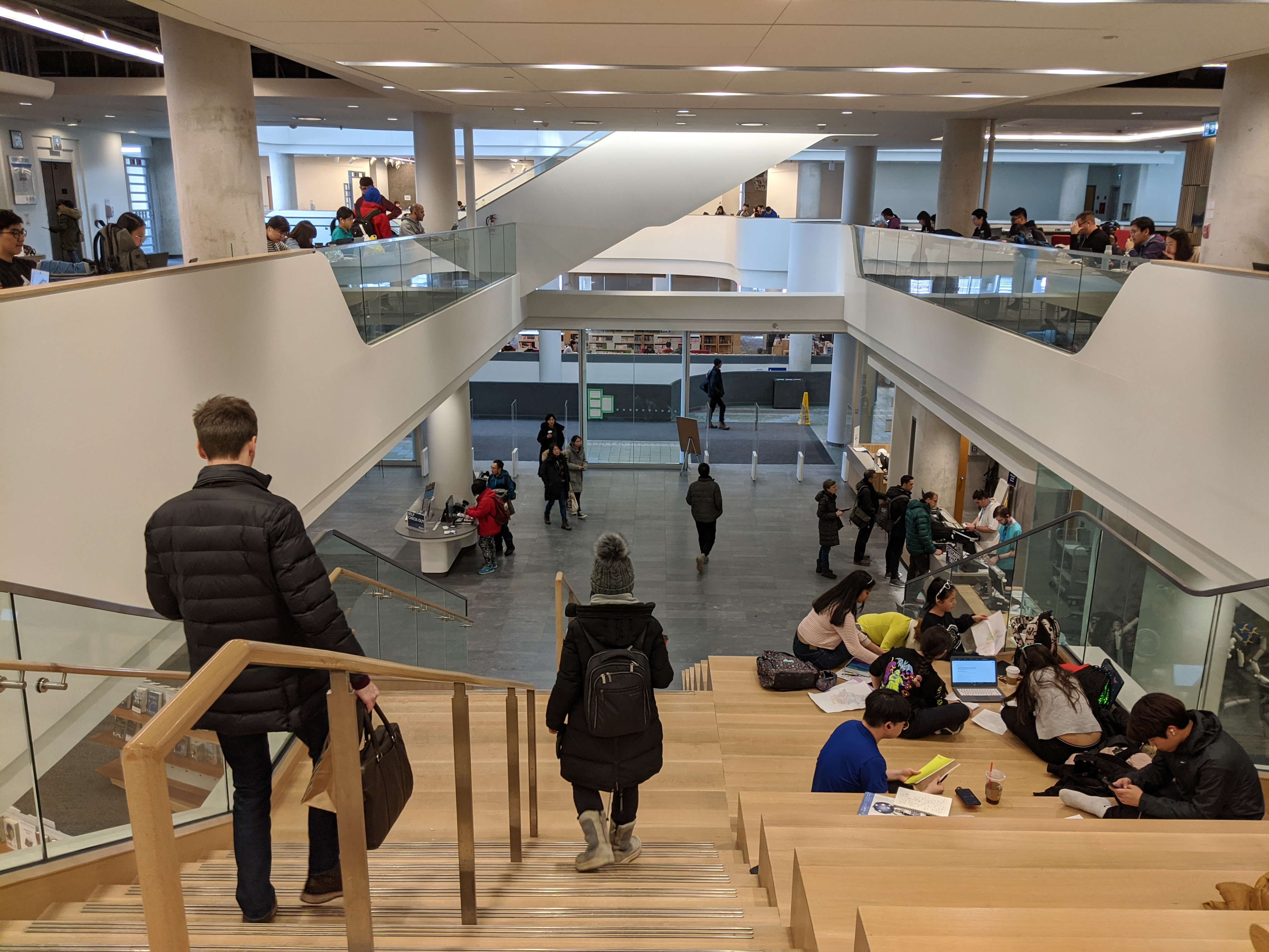 North York Central Library